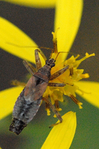 Picture taken in Commanster, Belgian High Ardennes . Species: Himacerus apterus male